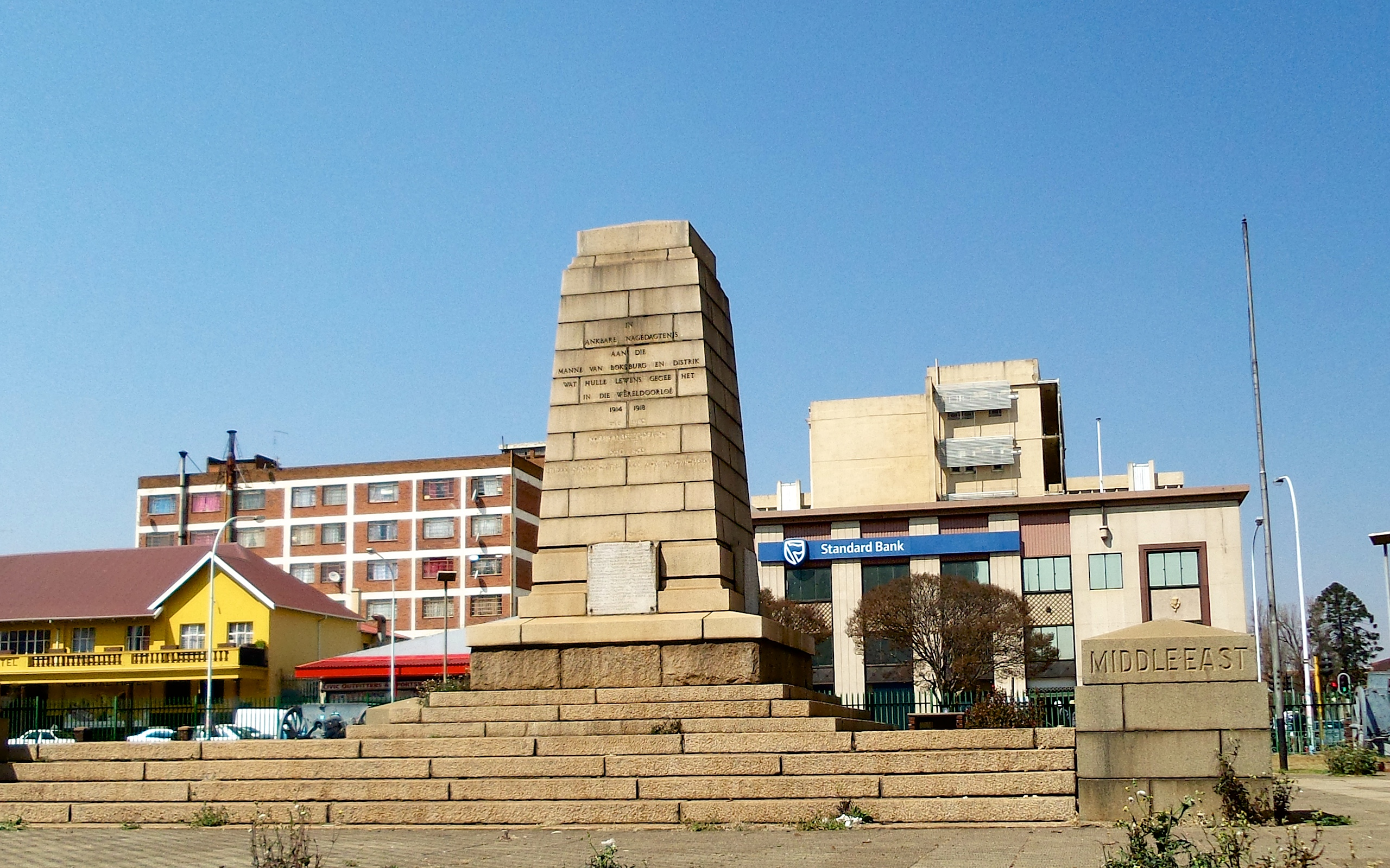 Memorial to those from Boksburg that died during various wars This media shows a South African Protected Site with SAHRA file reference 0.